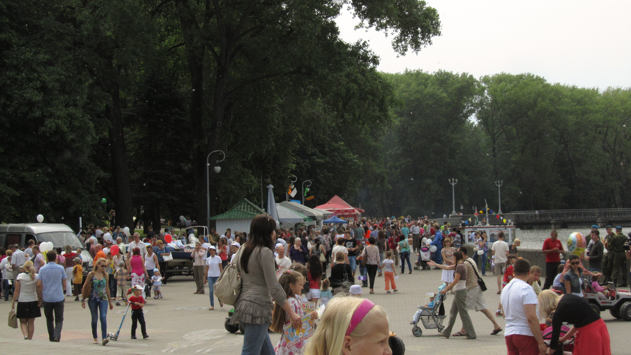 Central Children's Park, Minsk, Belarus